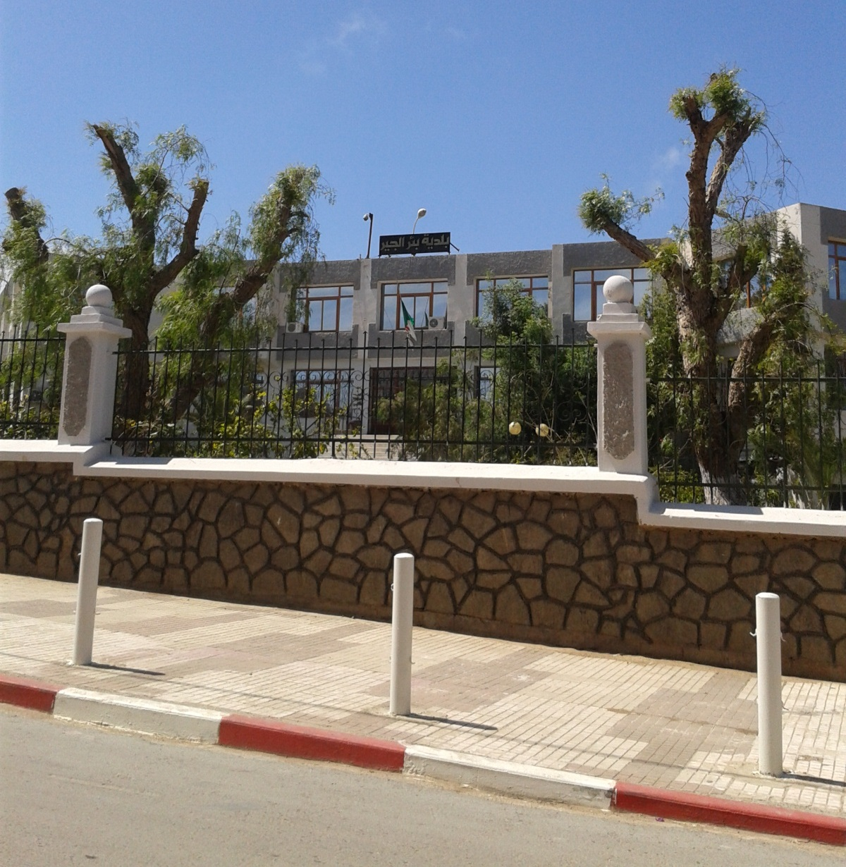 TownHall of Bir eldjir